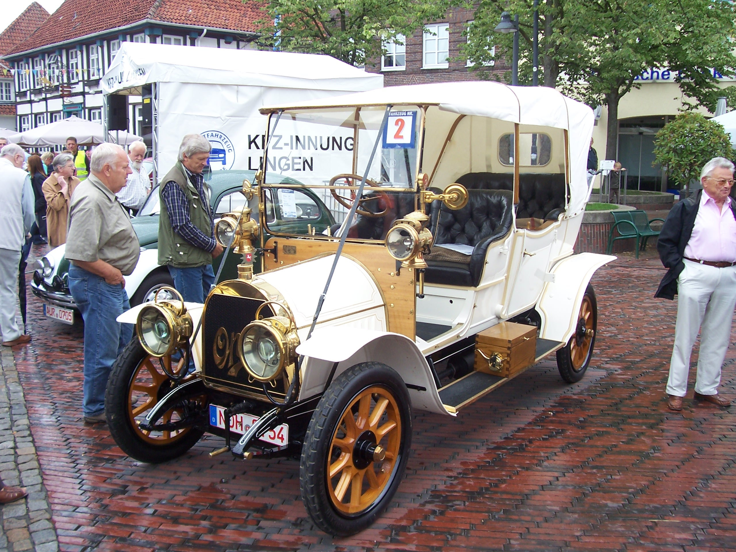 1908 Opel 8 16 Doppelphaeton